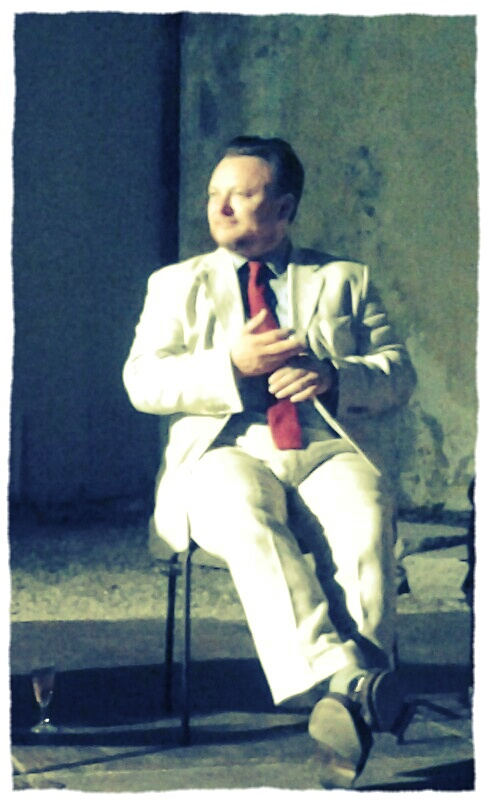 John Niven is a Scottish author and screenwriter. His books include Kill Your Friends, The Amateurs, and The Second Coming. Photo credit: Miriam Caputo